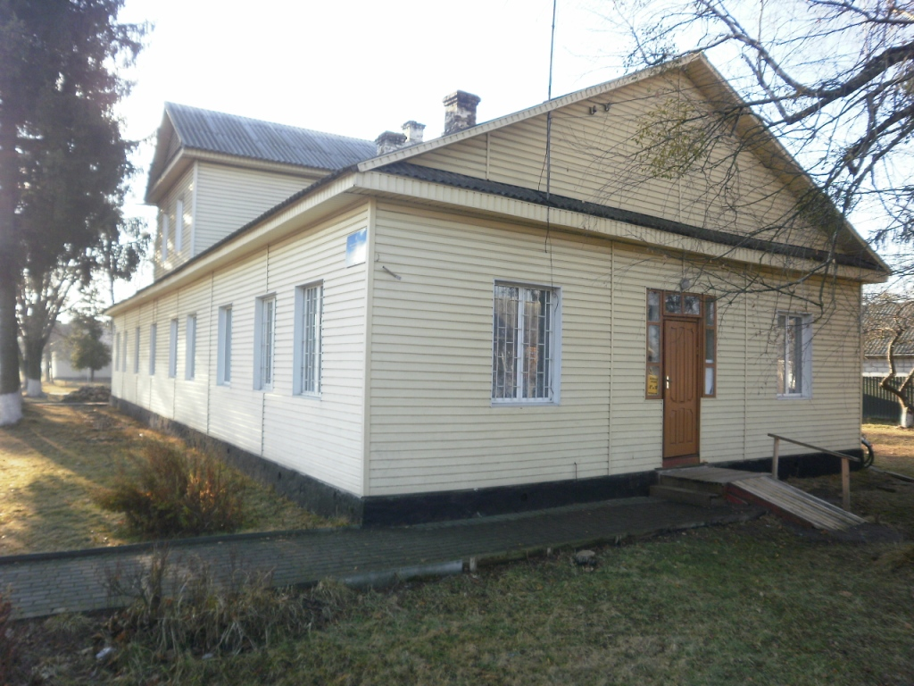 Library in the village Perekhodychi, Rivne Oblast of Ukraine